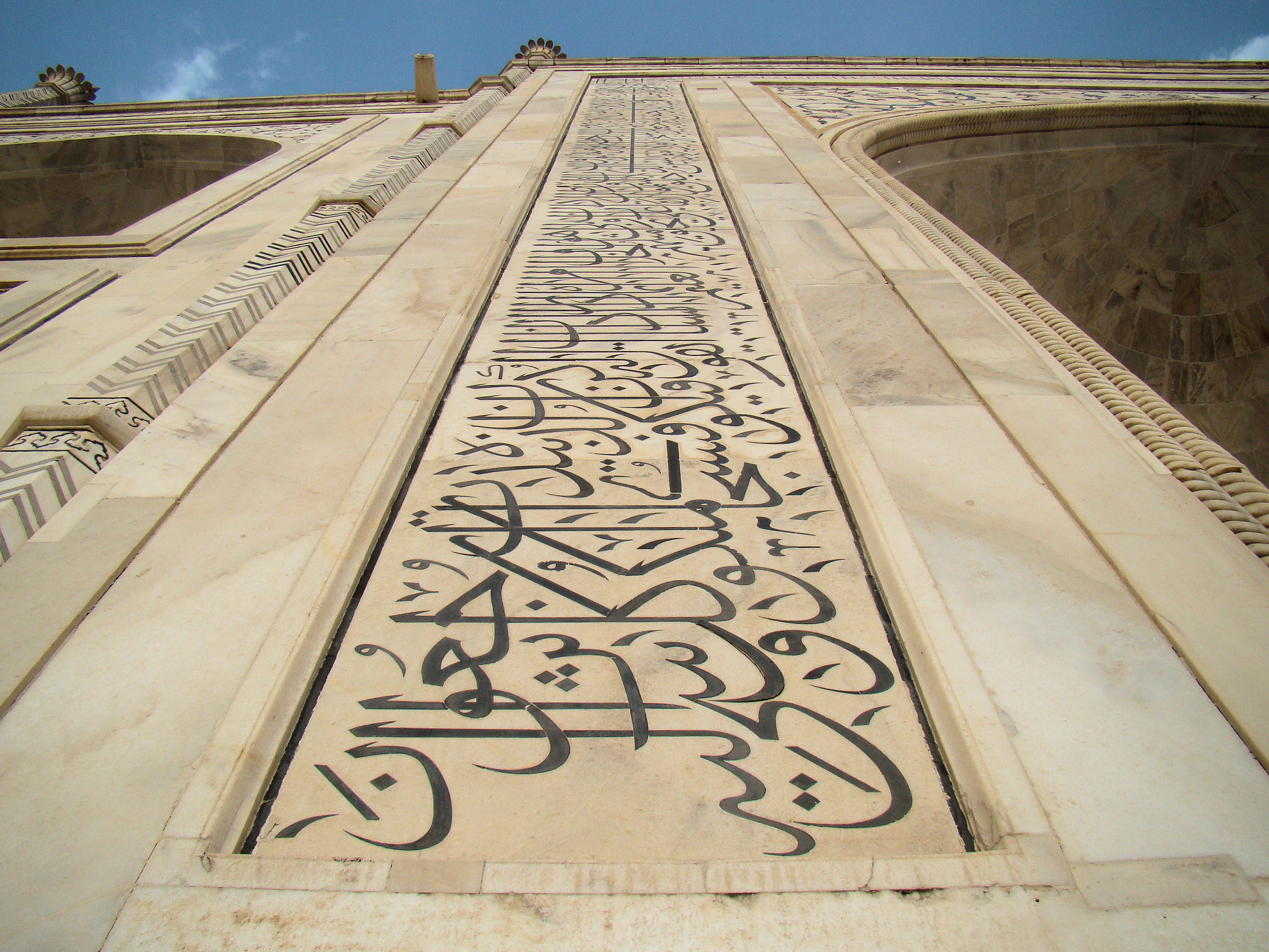 Vertical calligraphy on the sides of Taj Mahal.